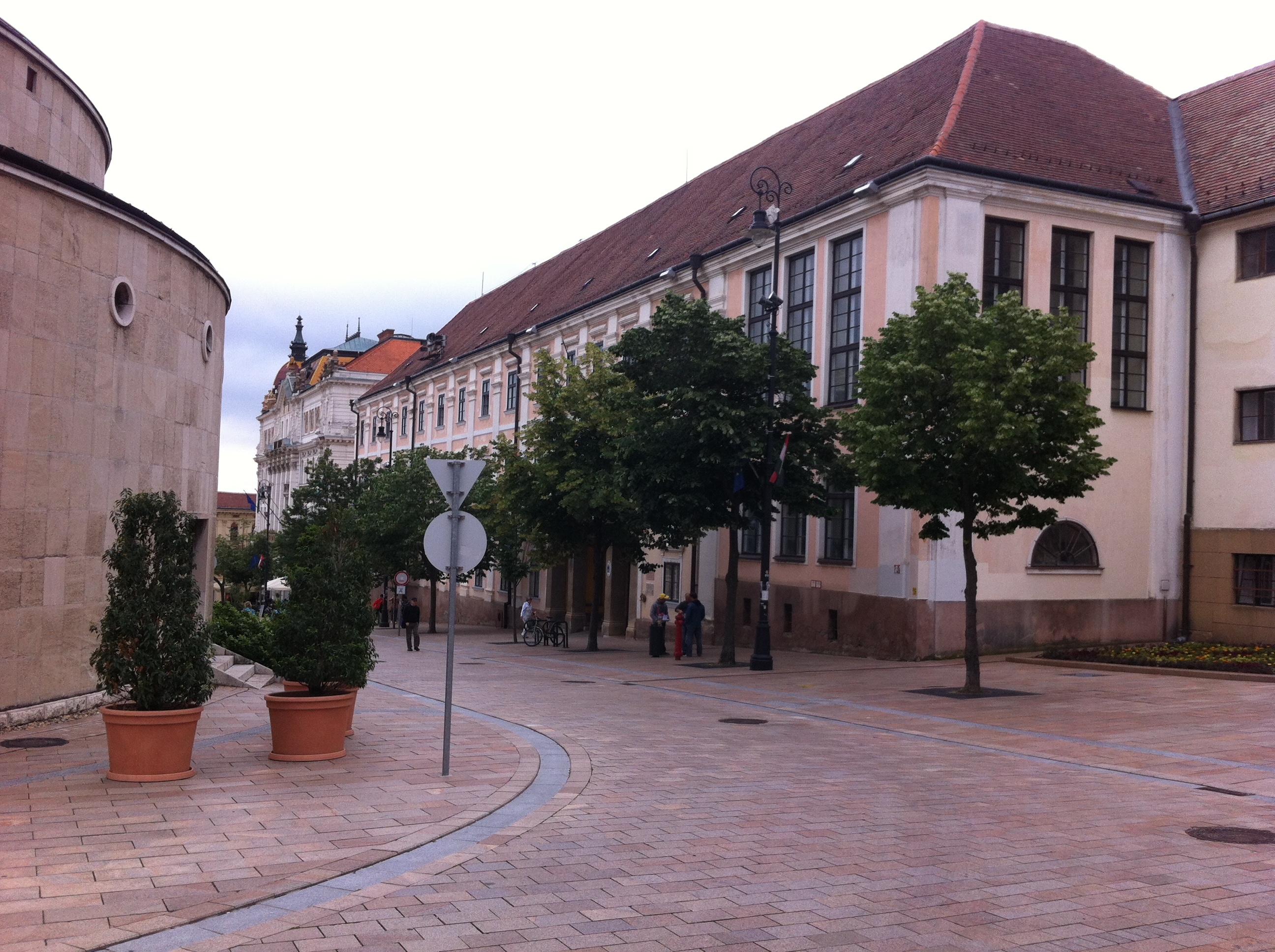 Nagy Lajos High School, Pécs, Hungary